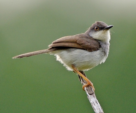 Grey-breasted Prinia (Prinia hodgsonii) ssp Prinia hodgsonii albogularis Location: Thattekad, Kerala, India October 8, 2007